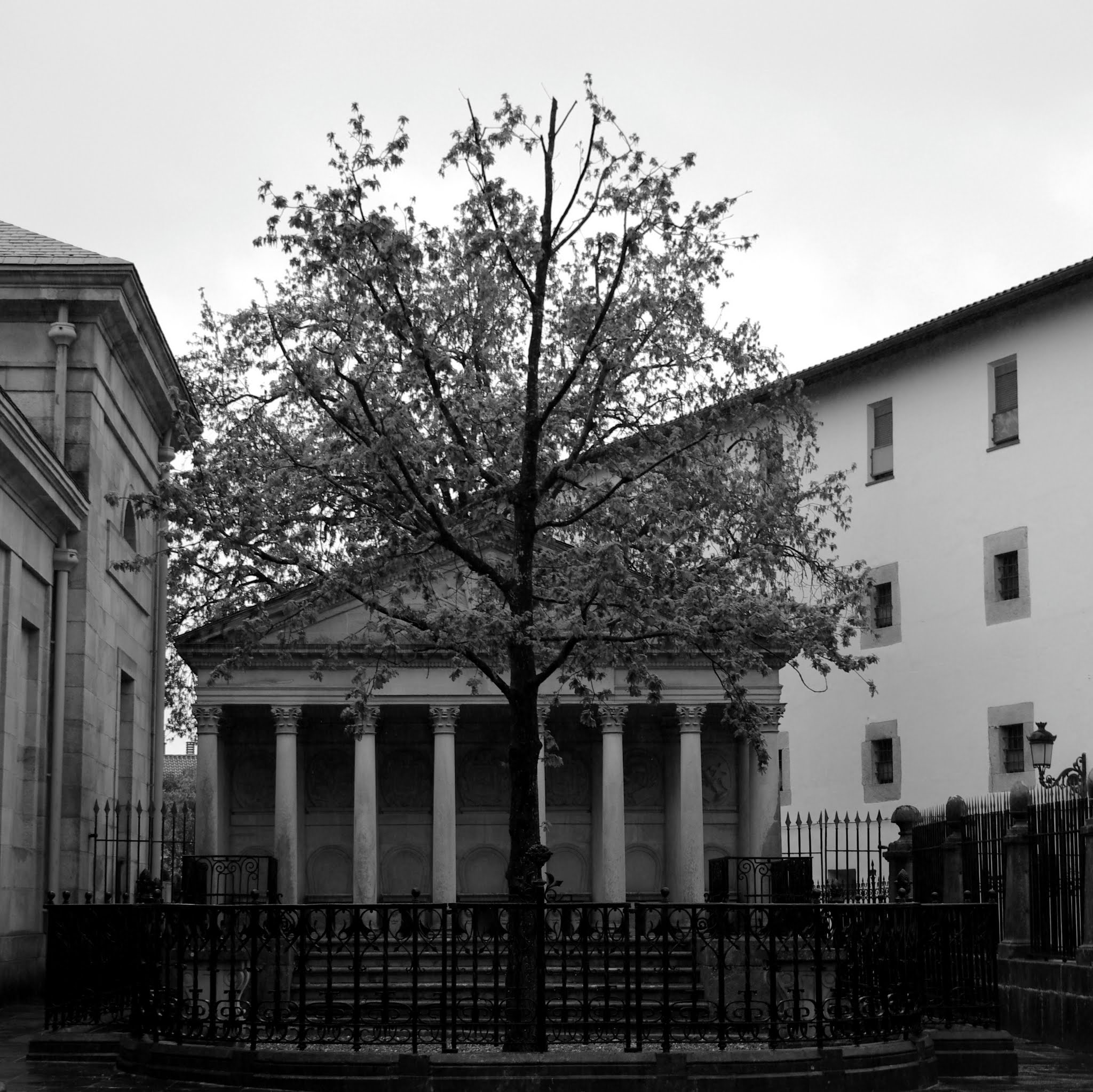 The "Gernika Oak", immortalised in song and history. I